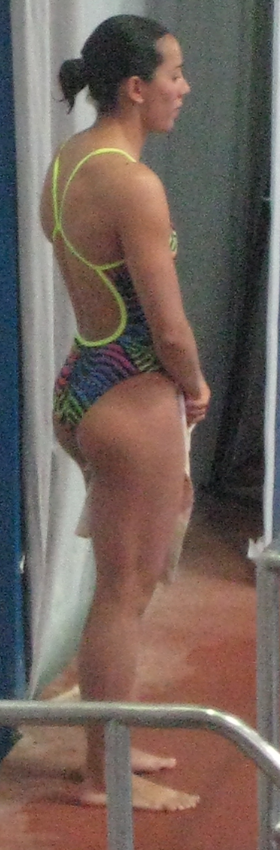 Second day of the 2013 FINA Diving World Series in Moscow. April 27, 2013.